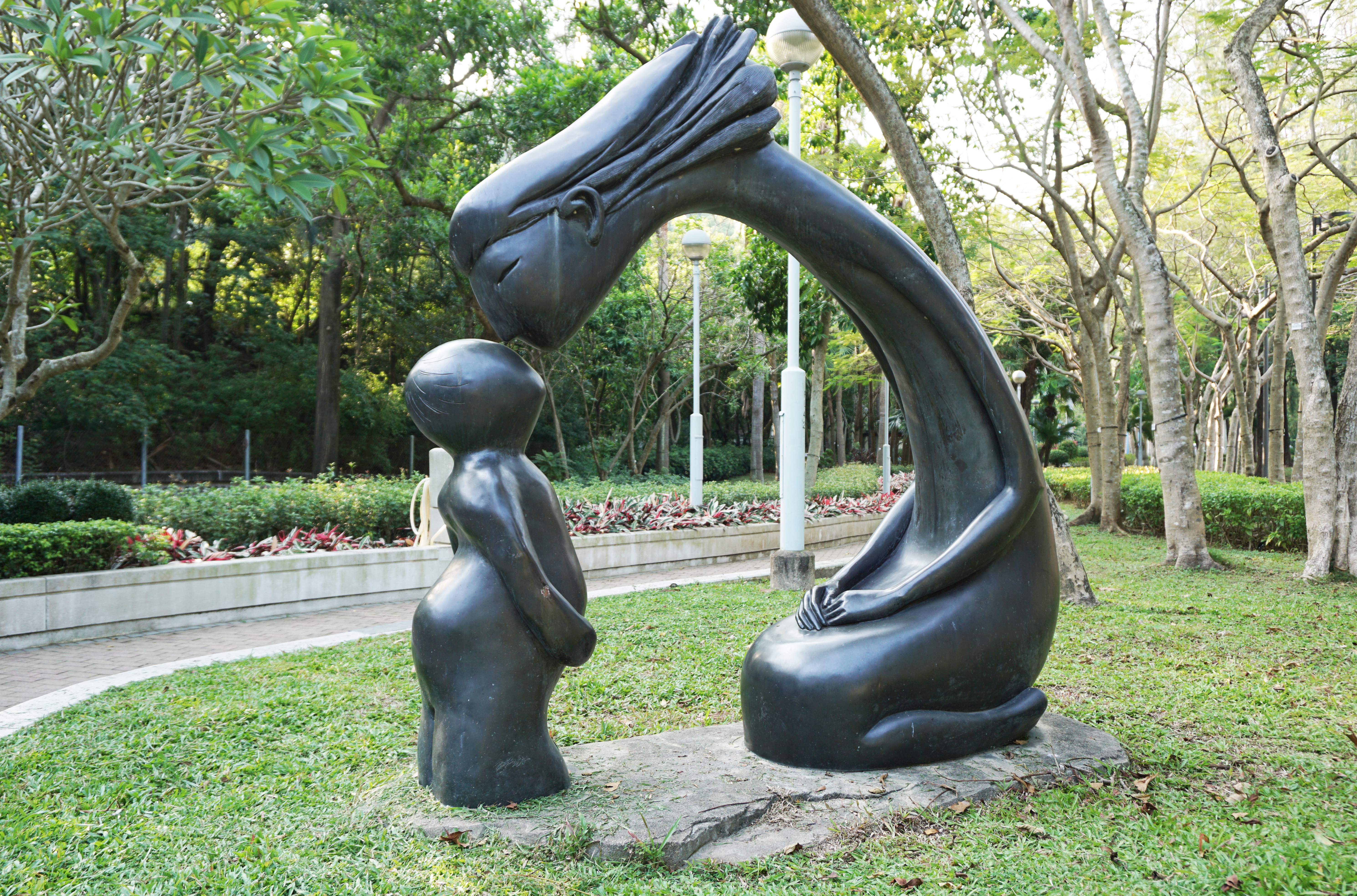 Po Hong Park in Po Lam, Hong Kong.